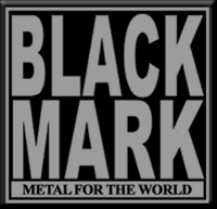 Logo of Black Mark Productions